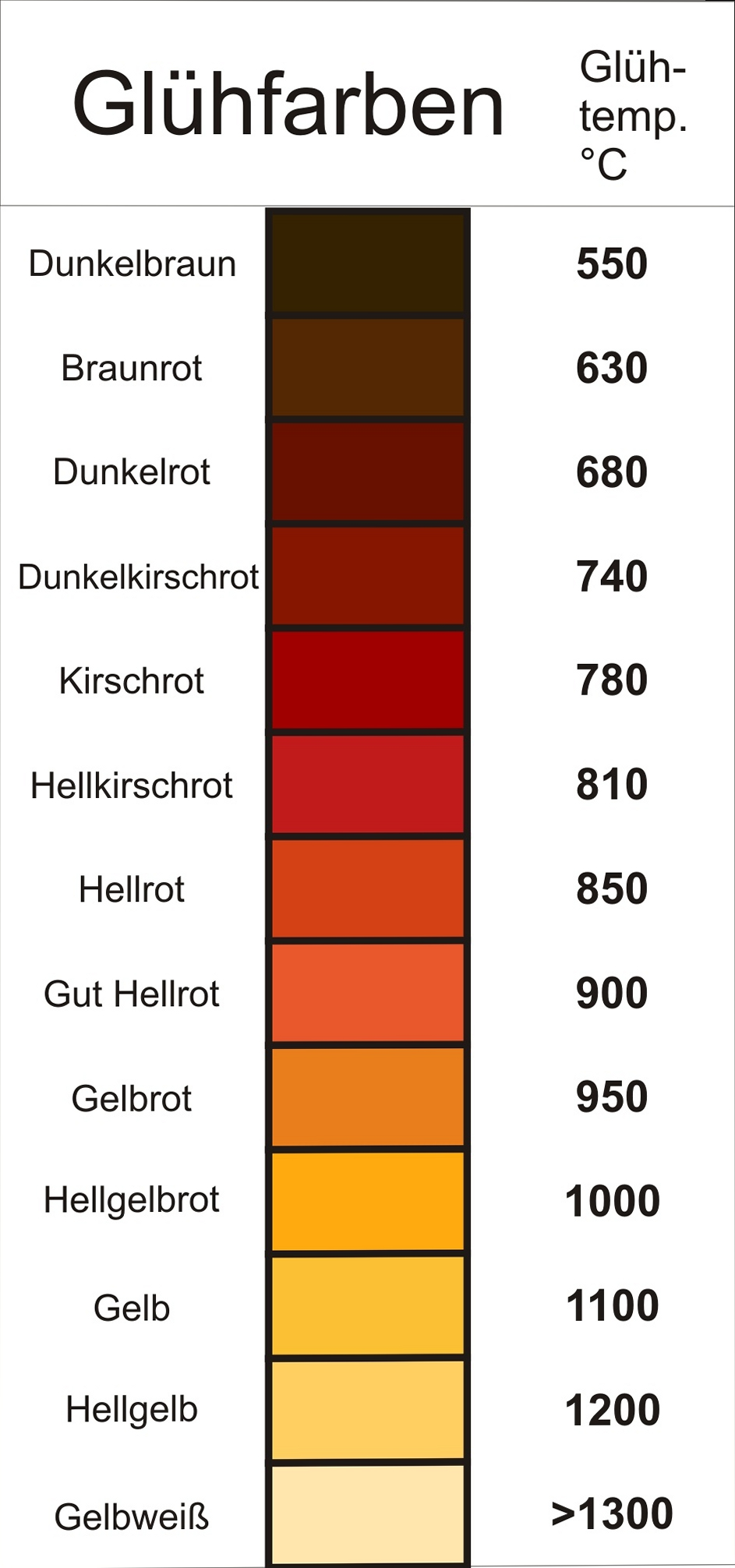 Annealing colors